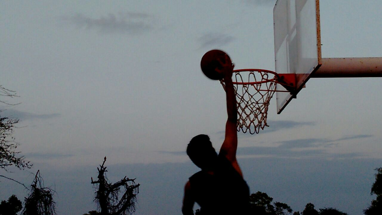 Basketball Dunk